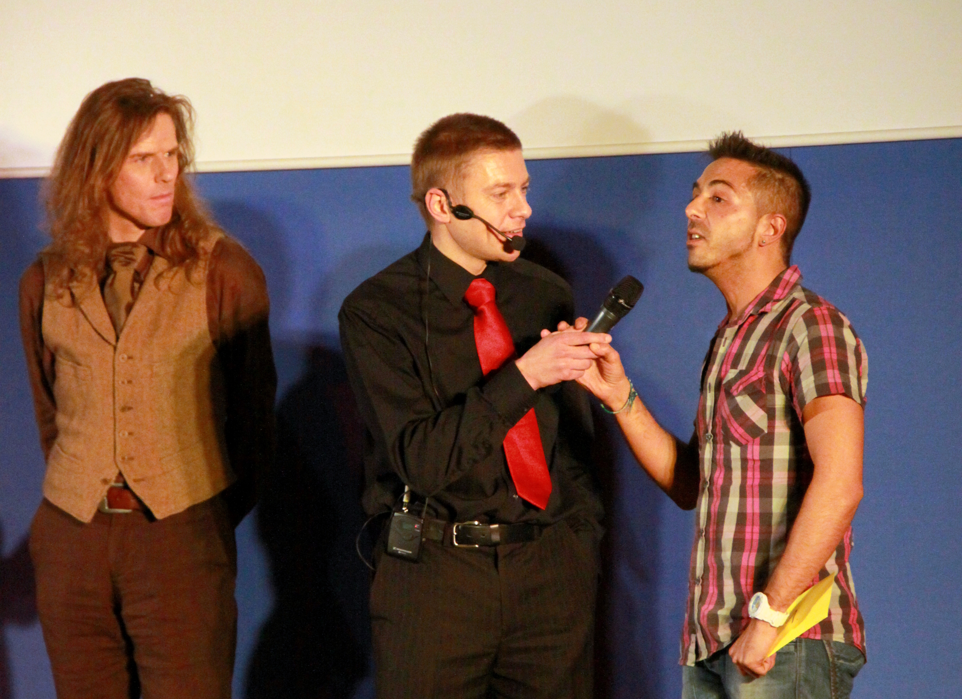 Federico Ariu (right) receives the Holebikort award for the short film Hudûd, in the presence of jury chairman Lieven Debrauwer (left) (2011).